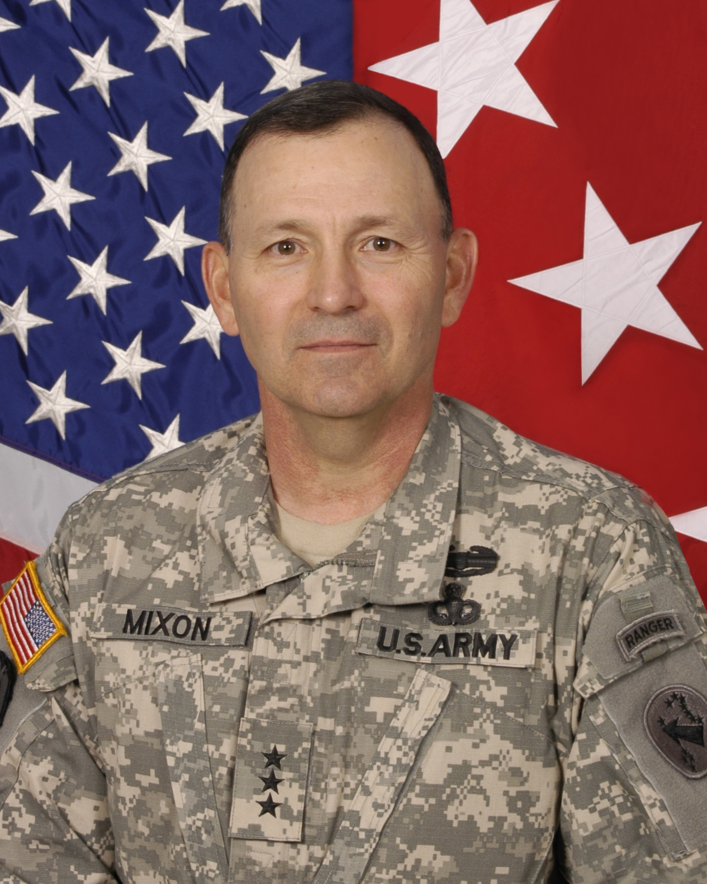 Lieutenant General Benjamin R. Mixon's official photo as Commanding General U.S. Army, Pacific .